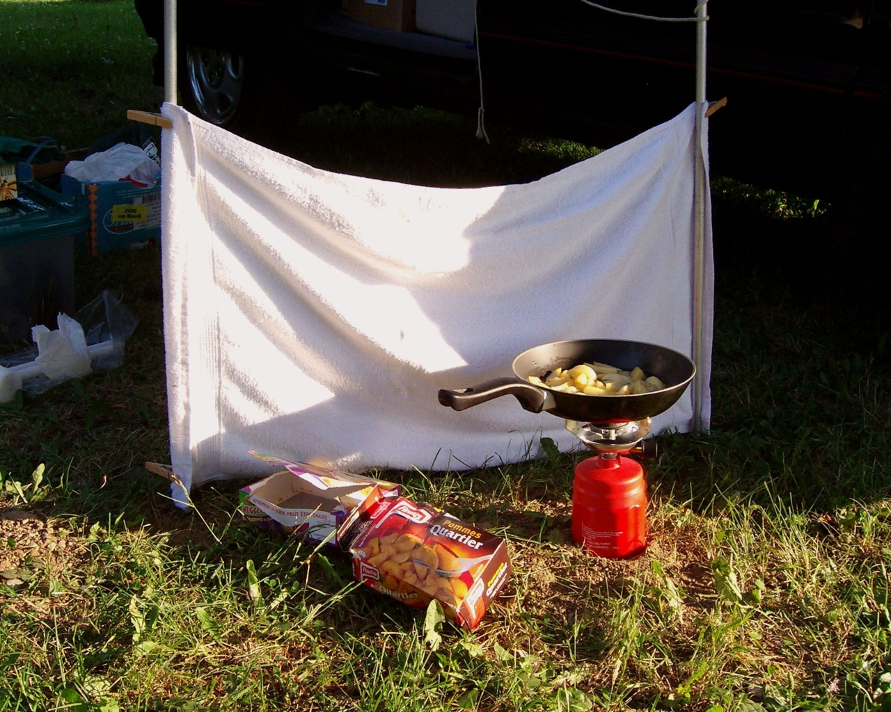 Baking potatoes on a camp site in Camurac (France)